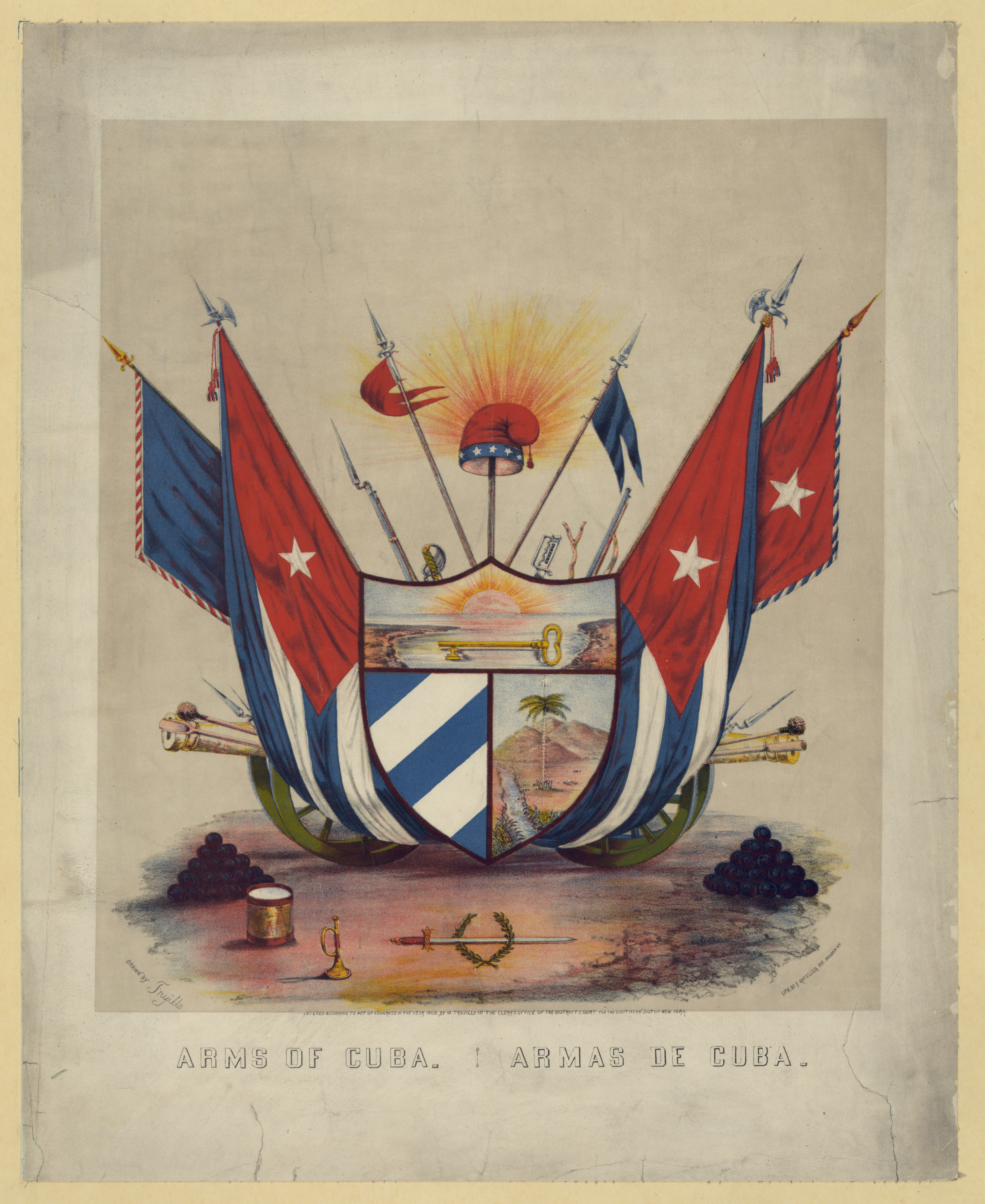 Title: Arms of Cuba. Armas de Cuba Physical description: 1 print. Notes: "Copyright Deposit, Southern District of N.Y.: 1869."; This record contains unverified data from PGA shelflist card.; Associated name on shelflist card: Ratellier, F.